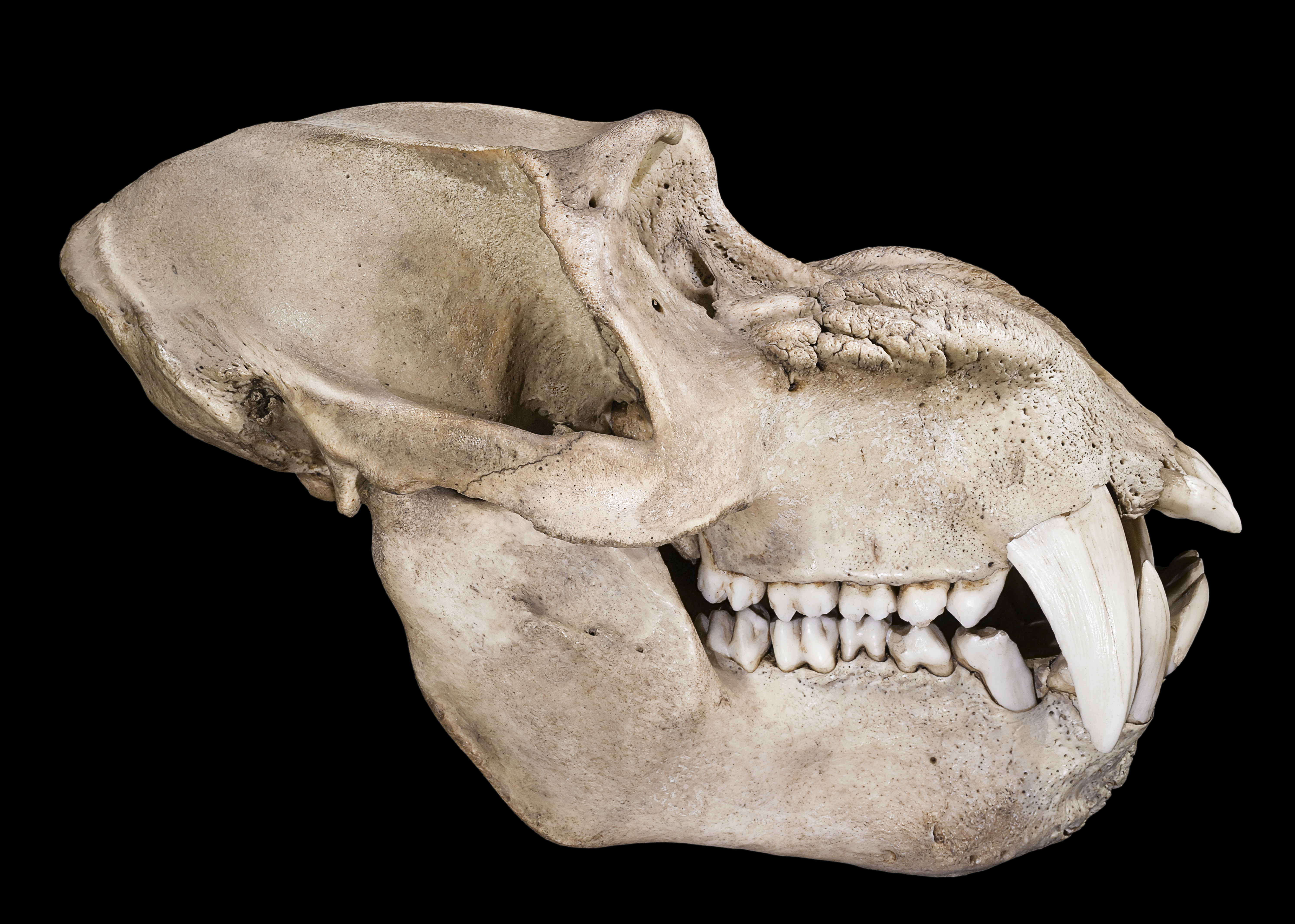 Mandrill Mandrillus sphynx (Linnaeus 1758) - Male - (View profil) Locality : Guinea Size : 20 × 15 × 14cm